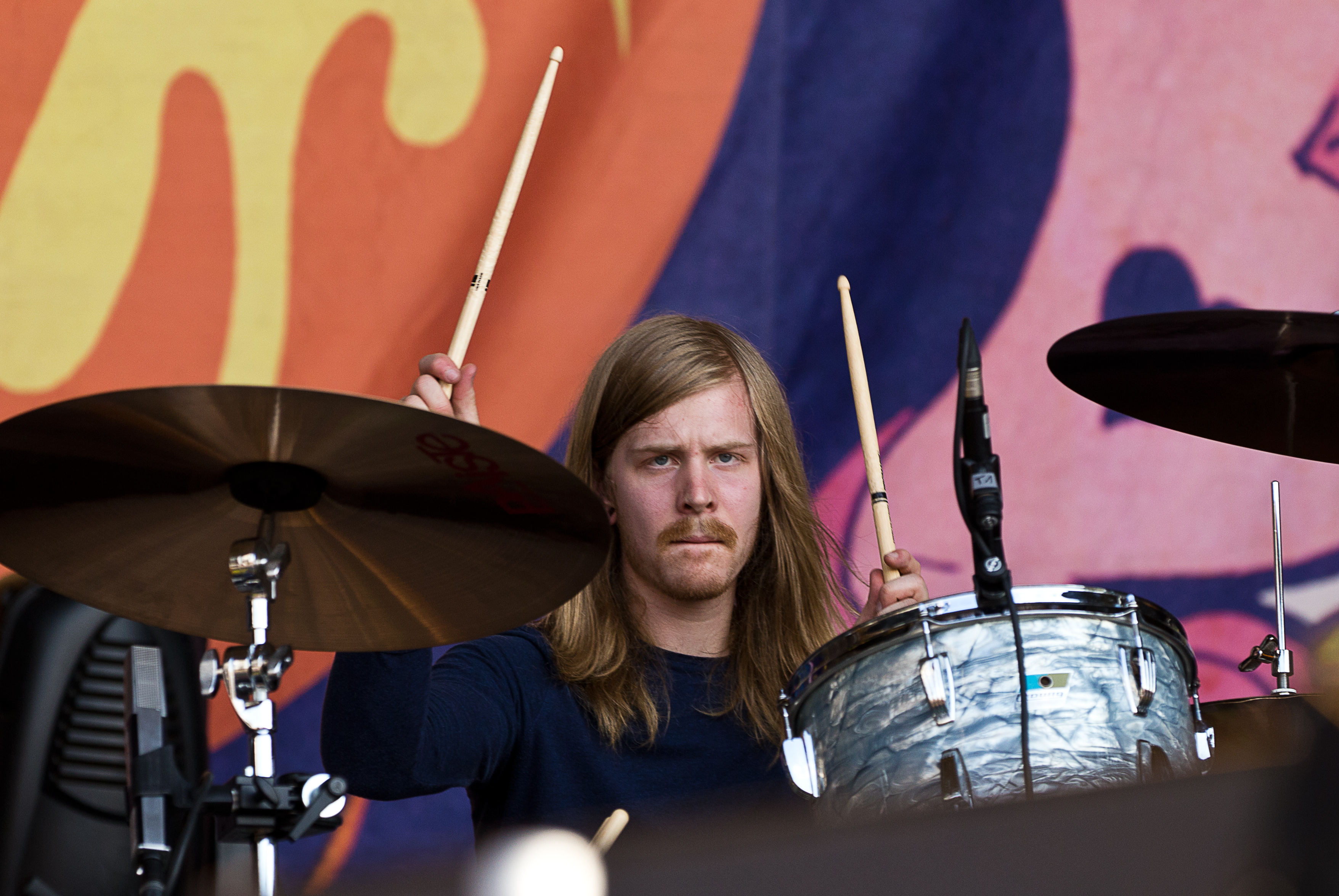 The Swedish blues rock band Blues Pills at the Rockharz Open Air 2015 in Ballenstedt/Germany.